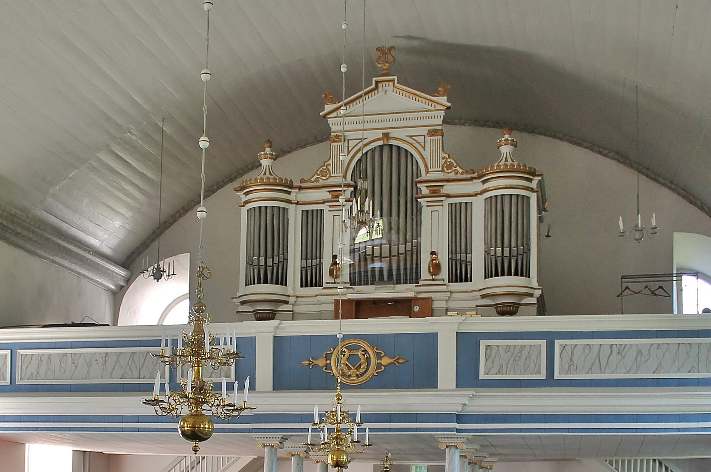 Löt Church. Organ